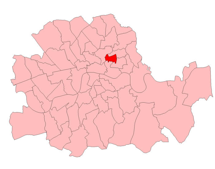 A map of Bethnal Green South West constituency within the London County Council area, as it existed from 1918 to 1949.